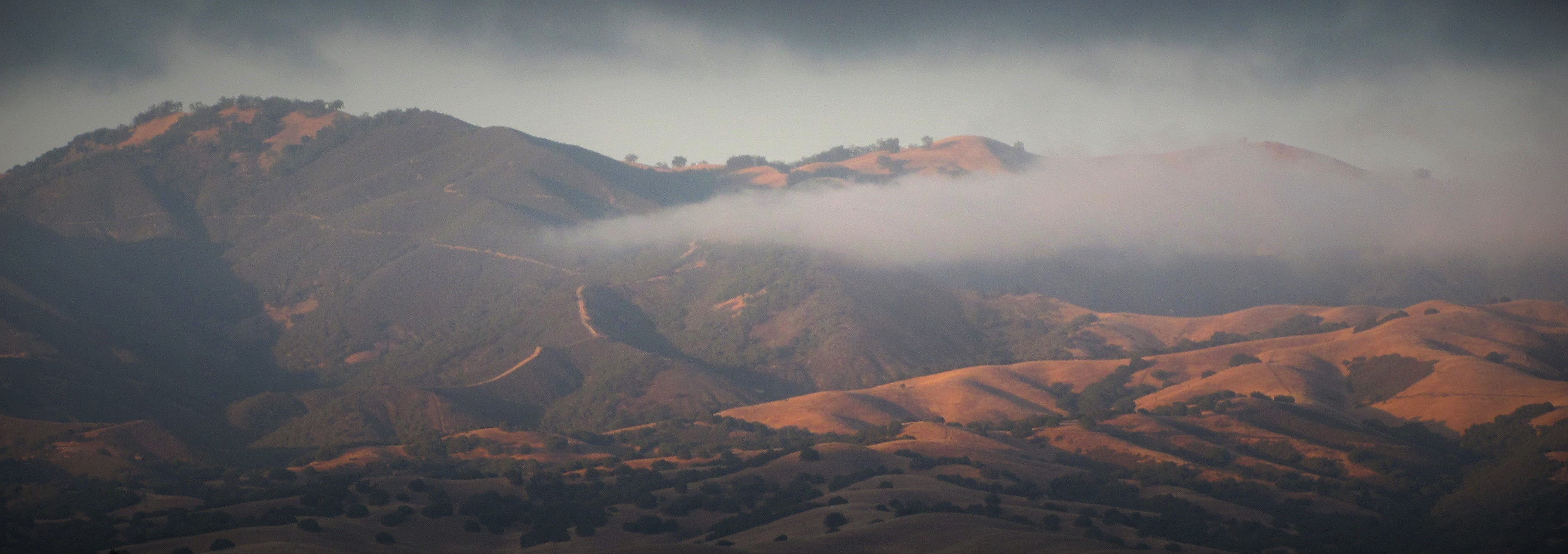 The Gabilan Range — of the Southern Inner California Coast Ranges, located east of the Salinas Valley.